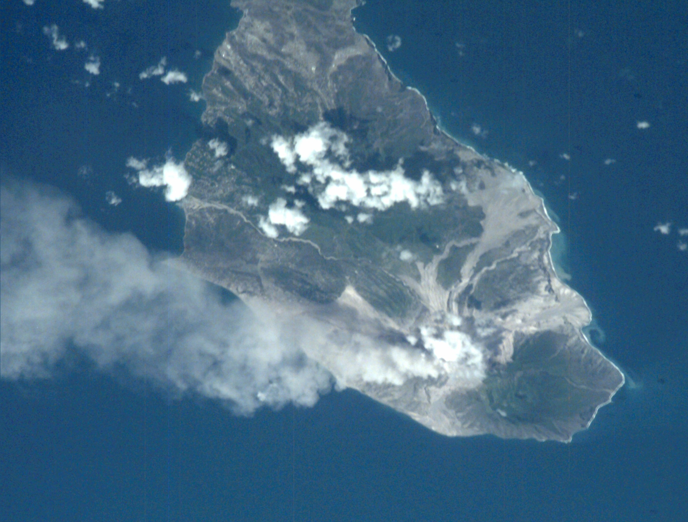 Montserrat island, overseas territory of united kingdom, in the lesser Antilles. important activity from Soufriere volcano.